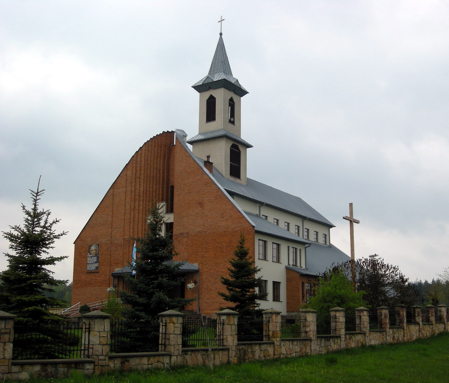 Luigi Orione church in Ostojów, Poland.